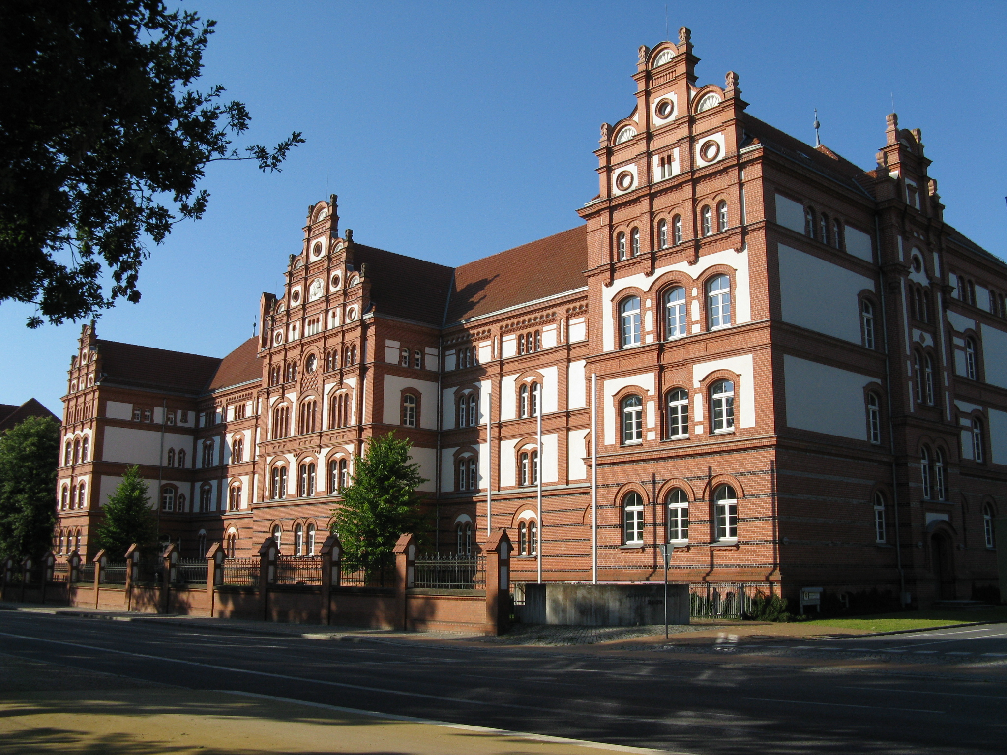 Former Artillery barracks in Schwerin, Germany